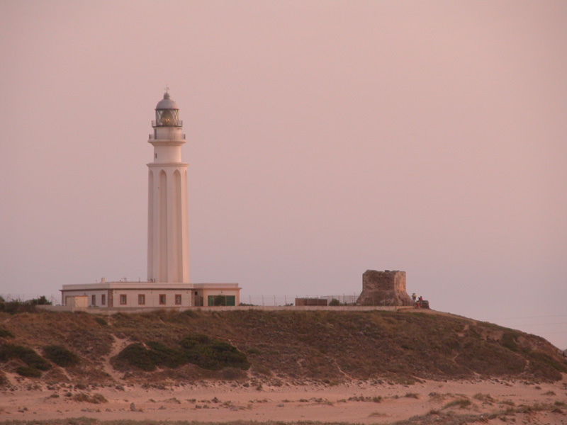 Lighthouse of Trafalgar